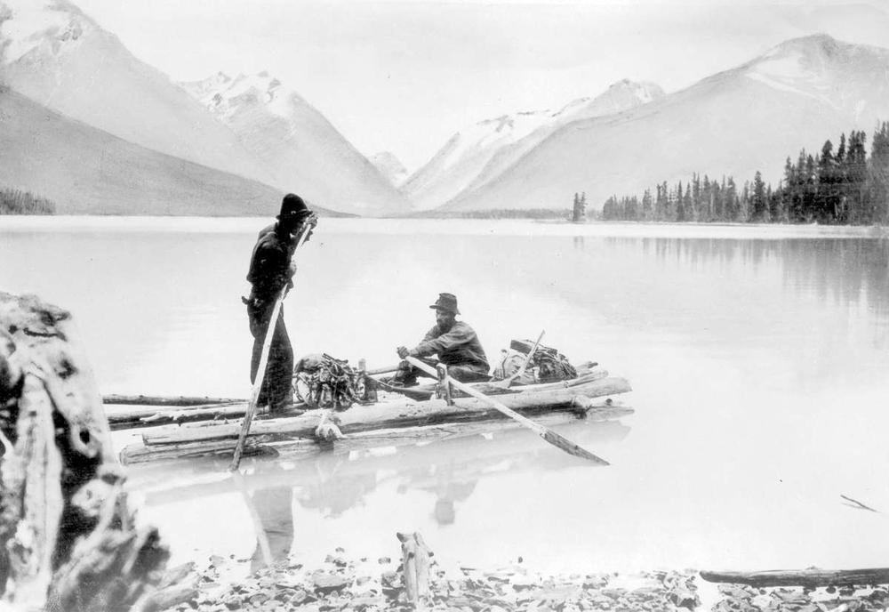 Tahltan men on boat to go hunting